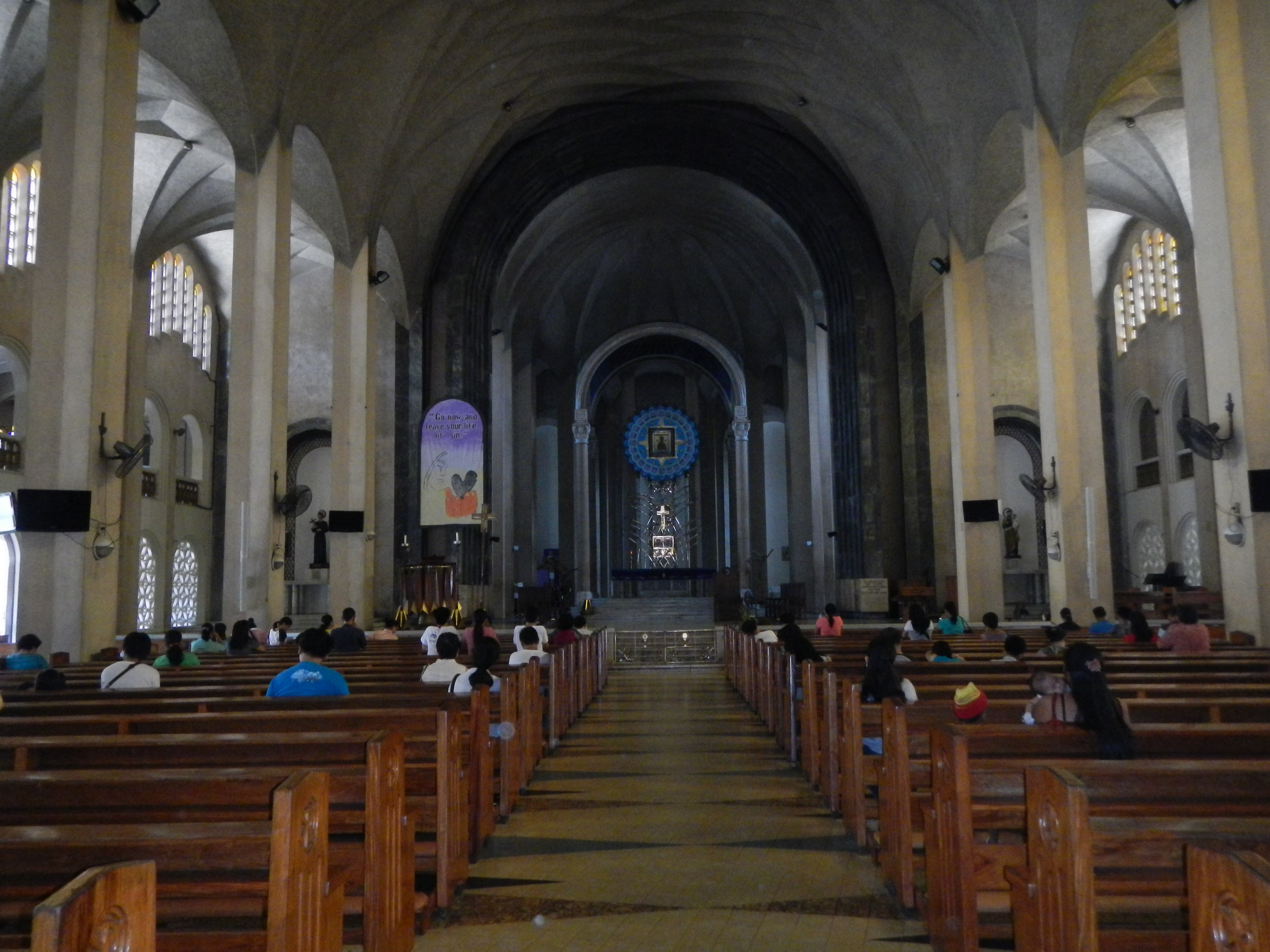 National Shrine of Our Mother of Perpetual Help[1][2] Coordinates: 14°31'52"N 120°59'42"E The National Shrine of Our Mother of Perpetual Help[3], also called the Redemptorist Church and the Baclaran Church, is a Roman Catholic parish church under the vicariate of the parish of Santa Rita de Cascia in the Diocese of Parañaque. The edifice is on Roxas Boulevard in the barangay of Baclaran in Parañaque City, Metro Manila. It is one of the most widely known churches in Metro Manila, and devotees from many parts of the region regularly flock to the sanctuary every Wednesday in what has become known as Baclaran Day. The parish celebrates its fiesta on June 27, the feast day of Our Mother of Perpetual Help. "the most attended church in Asia" is a coveted title Baclaran church, [4][5] Redemptorists Baclaran, Paranaque City, 1700 Metro Manila[6]Architect Cesar Concio[7][8][9]